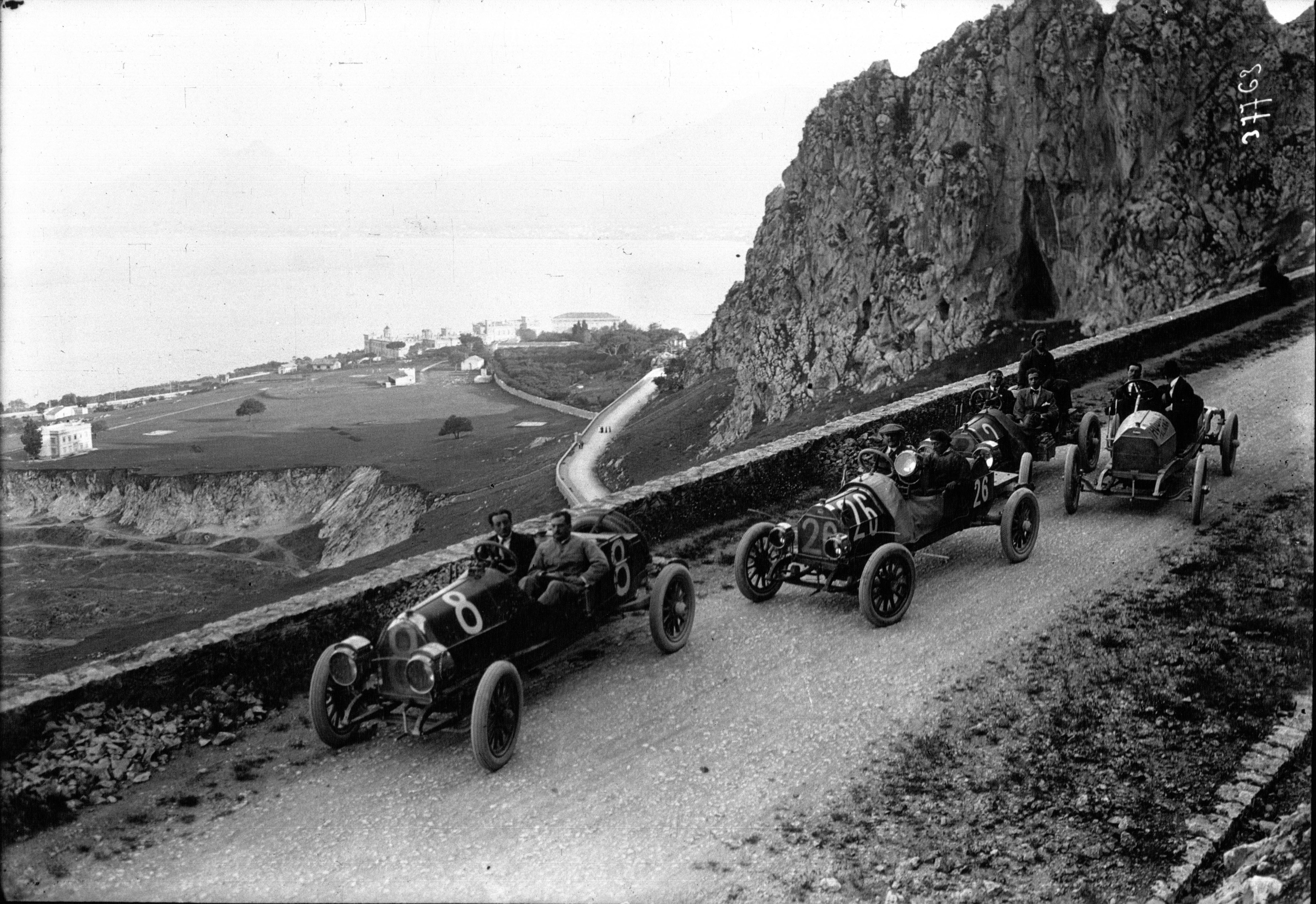 Team Aquila Italiana at the 1913 Targa Florio.